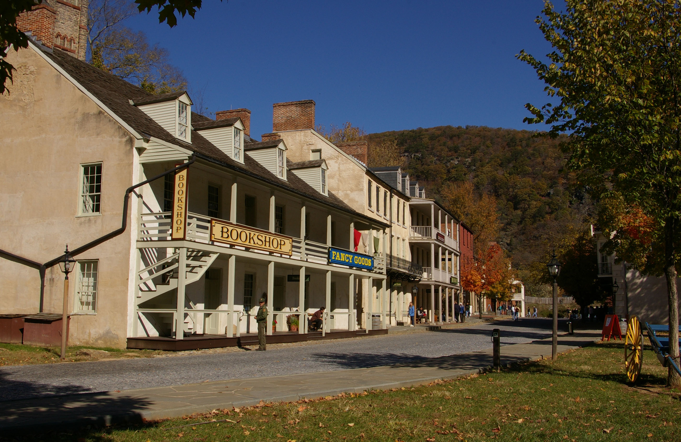 Looking up Shenandoah Street in Harper's Ferry, 2007. Photograph by Joy Schoenberger